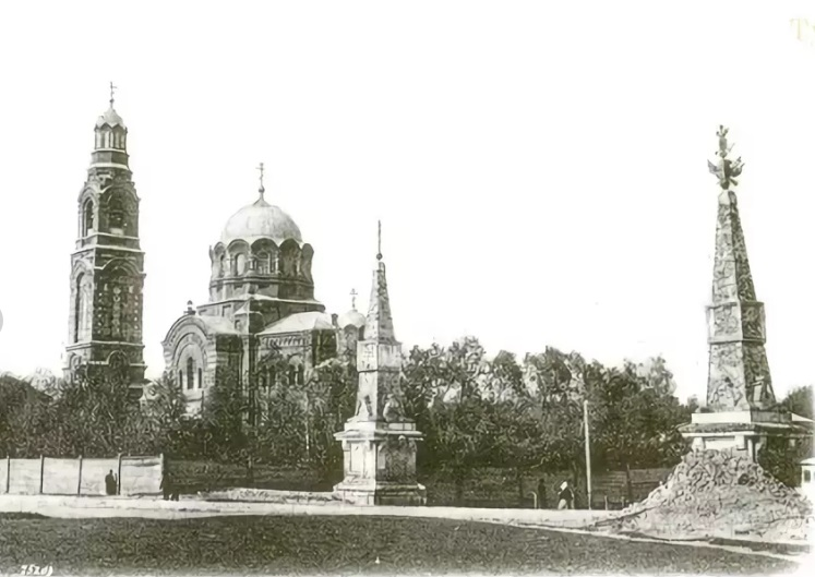 Saint Sergius Church near Moscow Gate (Tula, Russia)